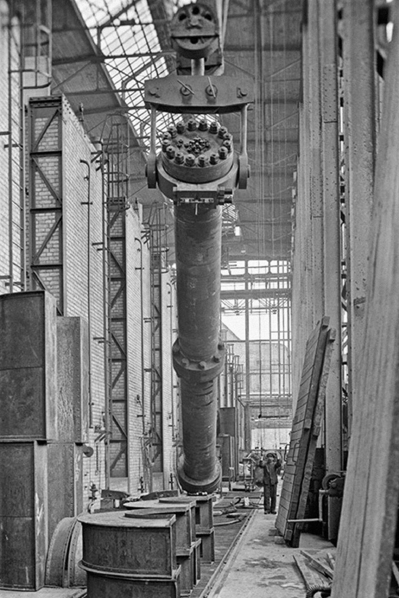 First ammonia reactor (9,000 tpy) from BASF during assembly at the factory Oppau